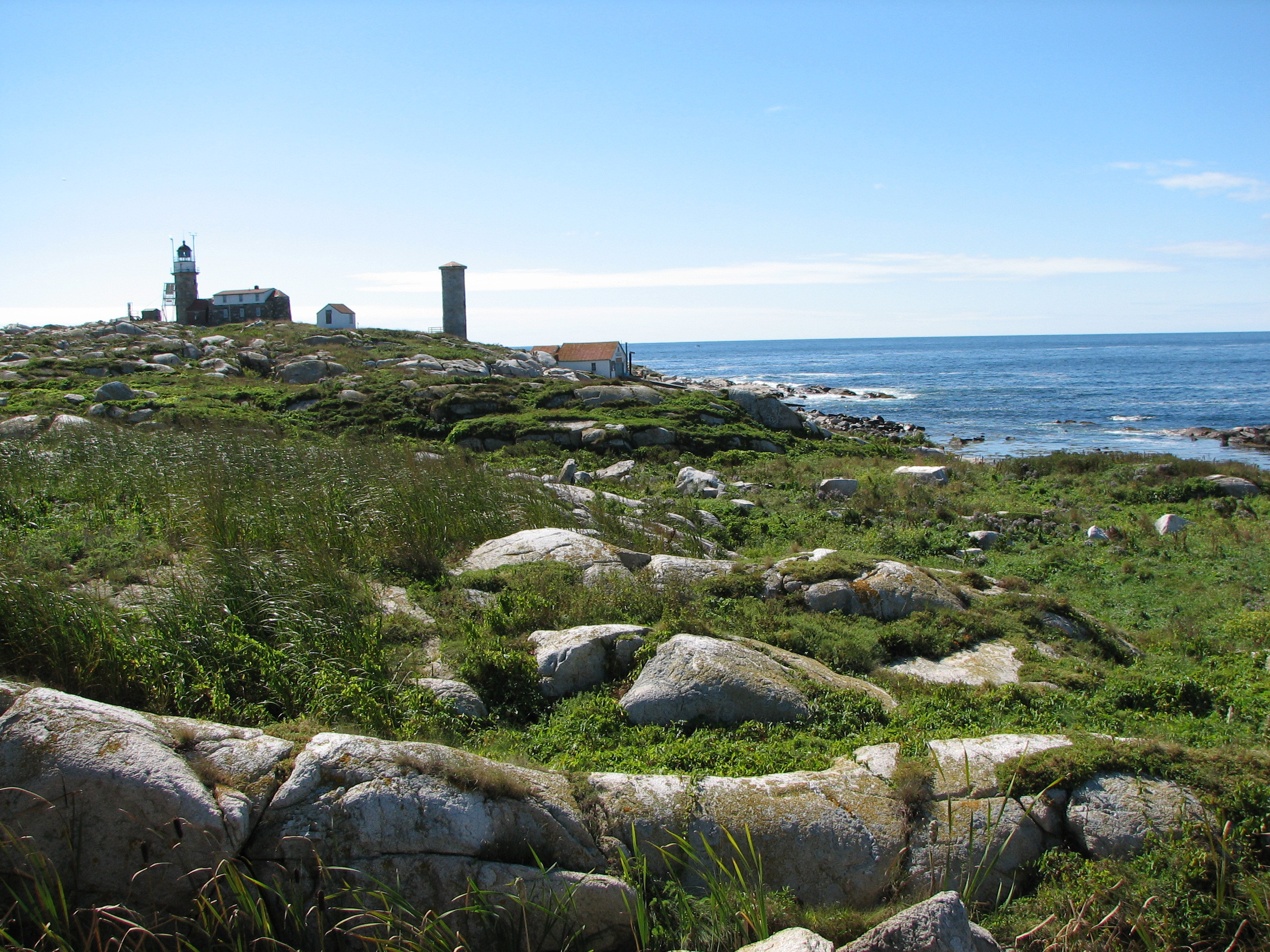 Matinicus Rock at Maine Coastal Island National Wildlife Refuge credit: USFWS